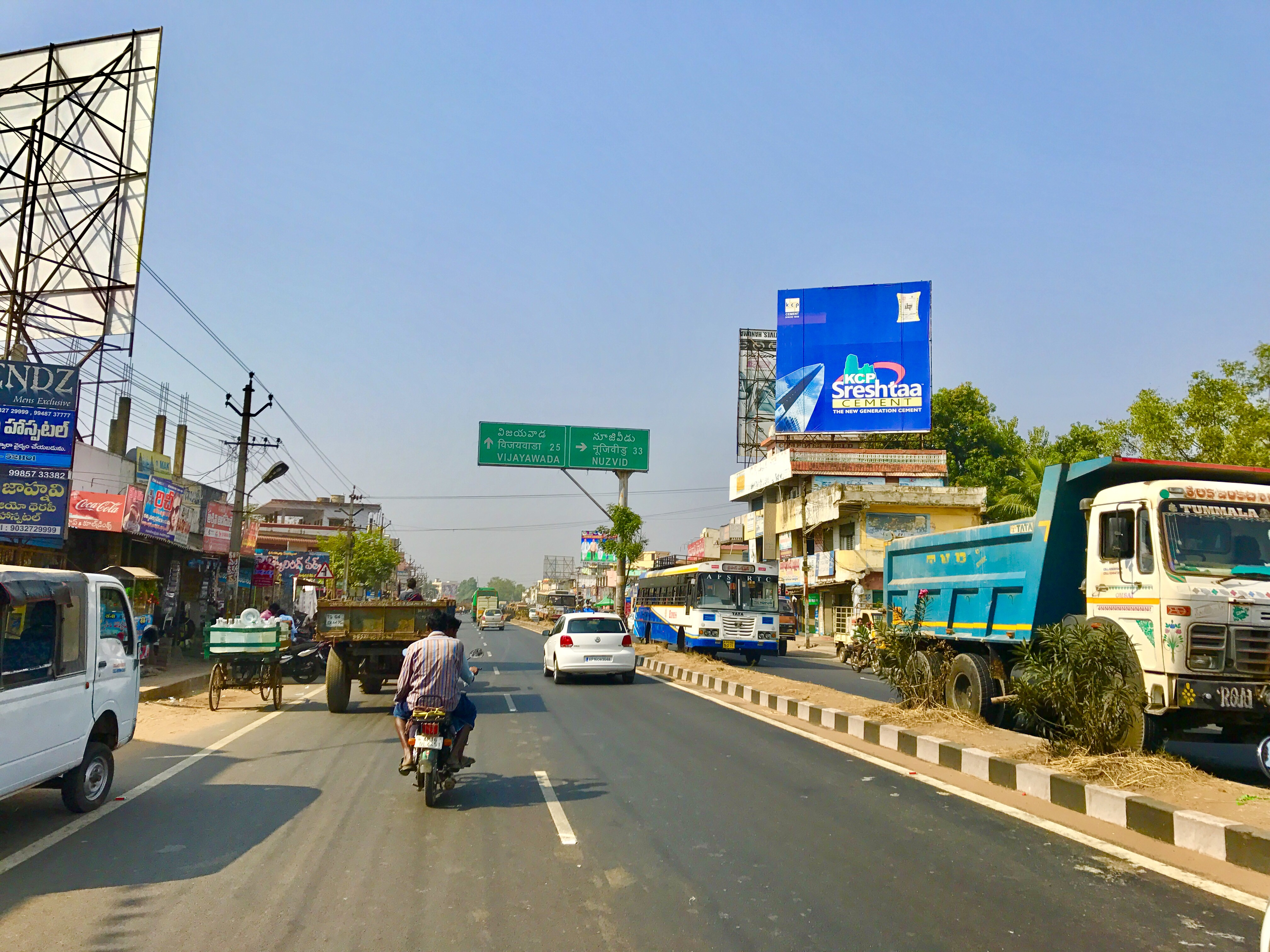 Gannavaram town view on AH-45